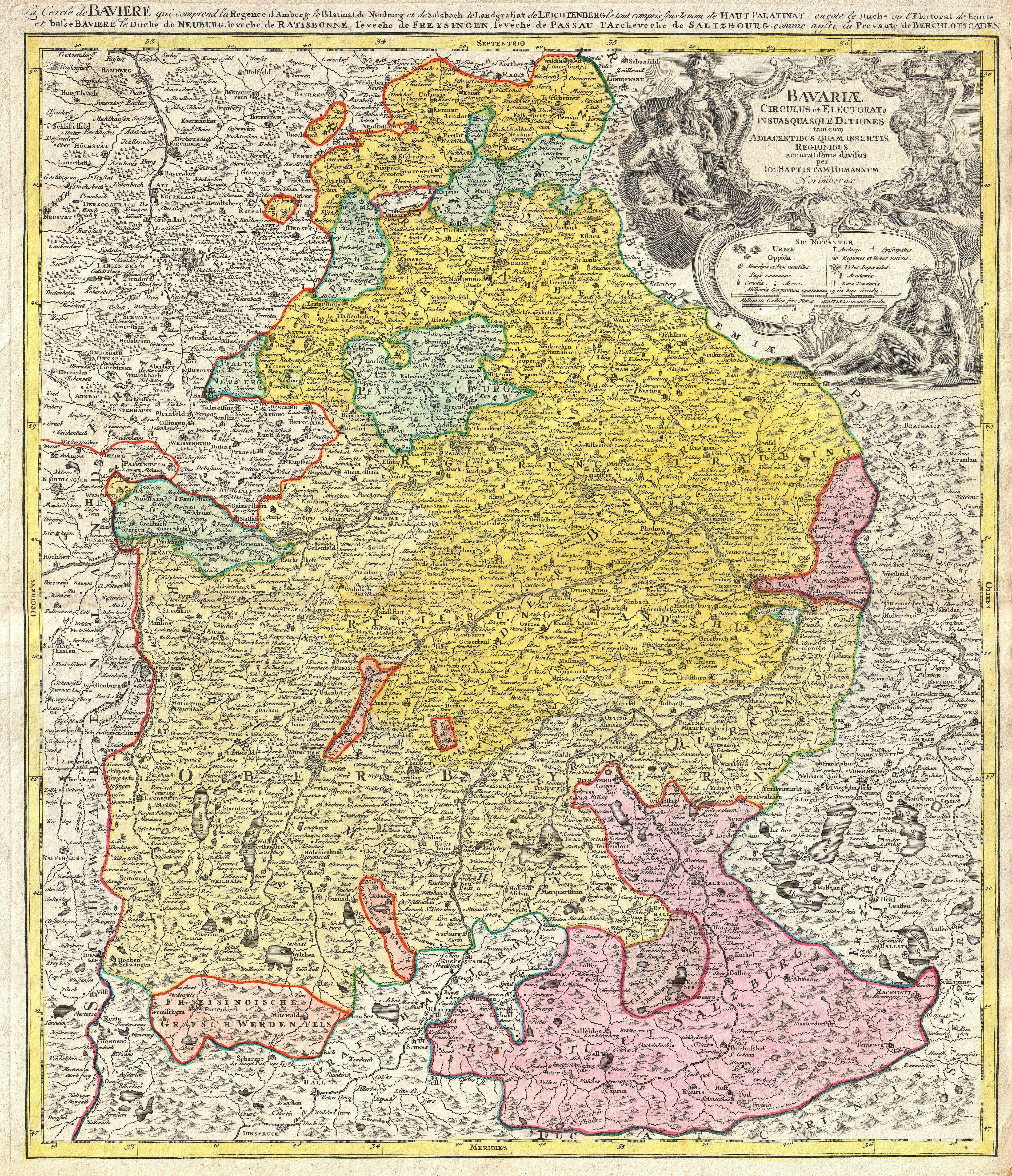 This is a rare and attractive map of Bavaria, Germany. Covers from Rabiz as far south as Innsbruck, including Munich, Salzburg, Passau, Bamberg, Nuremberg and Augsburg. Detail includes cities, forts, some topographical features, and districts. Stunning decorative title cartouche in the upper right quadrant featuring soldiers, cherubs, greed gods, and armorial decorations. Additional title, in French, in upper margin La cercle de Baviere, qui comprend la regence d'Amberg … Prepared by J.B. Homann and issued as plate no. 10 in Homann Heirs’ Maior Atlas Scholasticus.